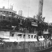 The SS Exodus 1947